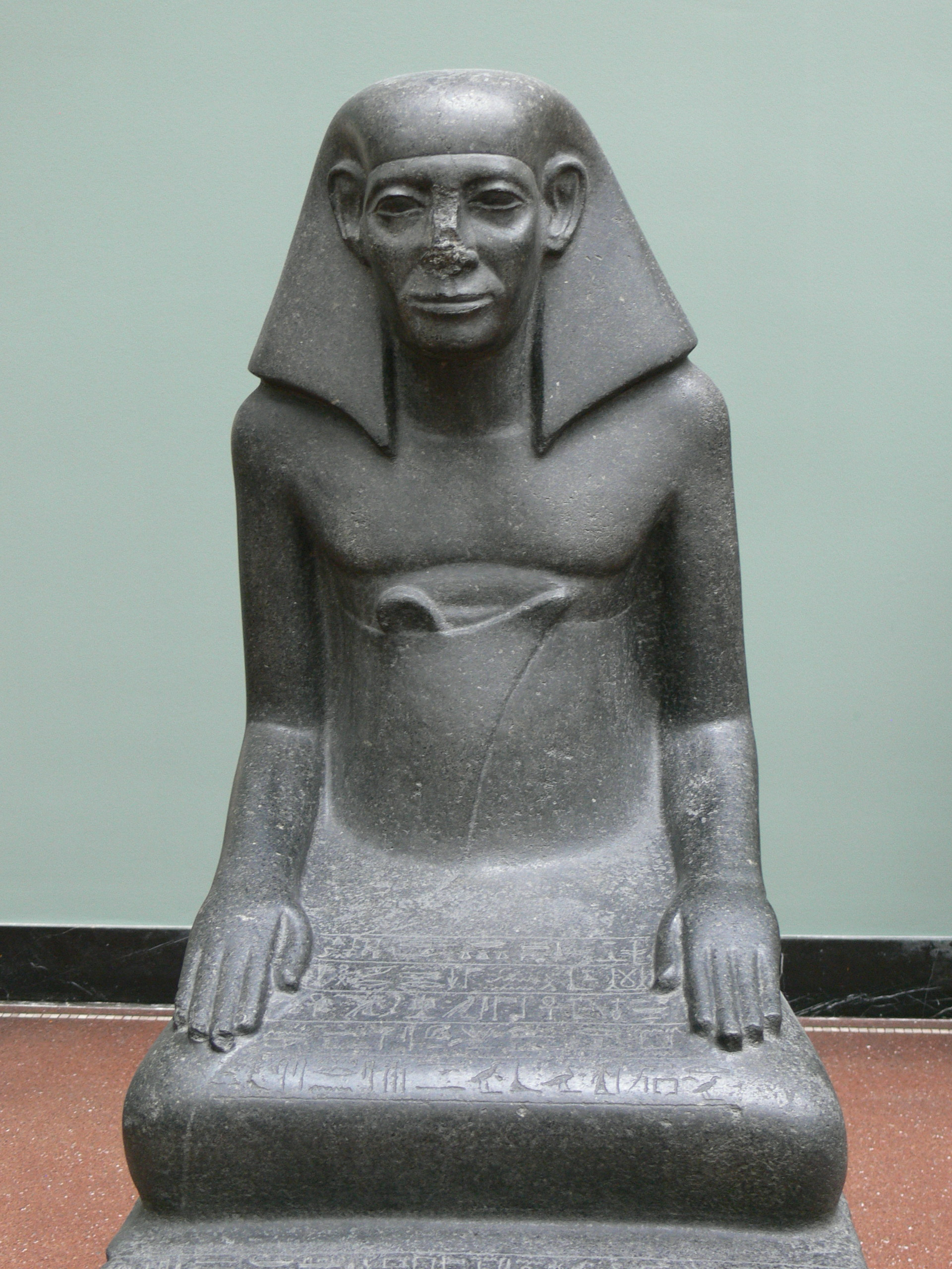 Egyptian collection in Ny Carlsberg Glyptohek, Copenhagen. Statue of Royal sealer and high steward Gebu, 13th dynasty, 1700 B.C. Originally from the temple of Amun in Karnak